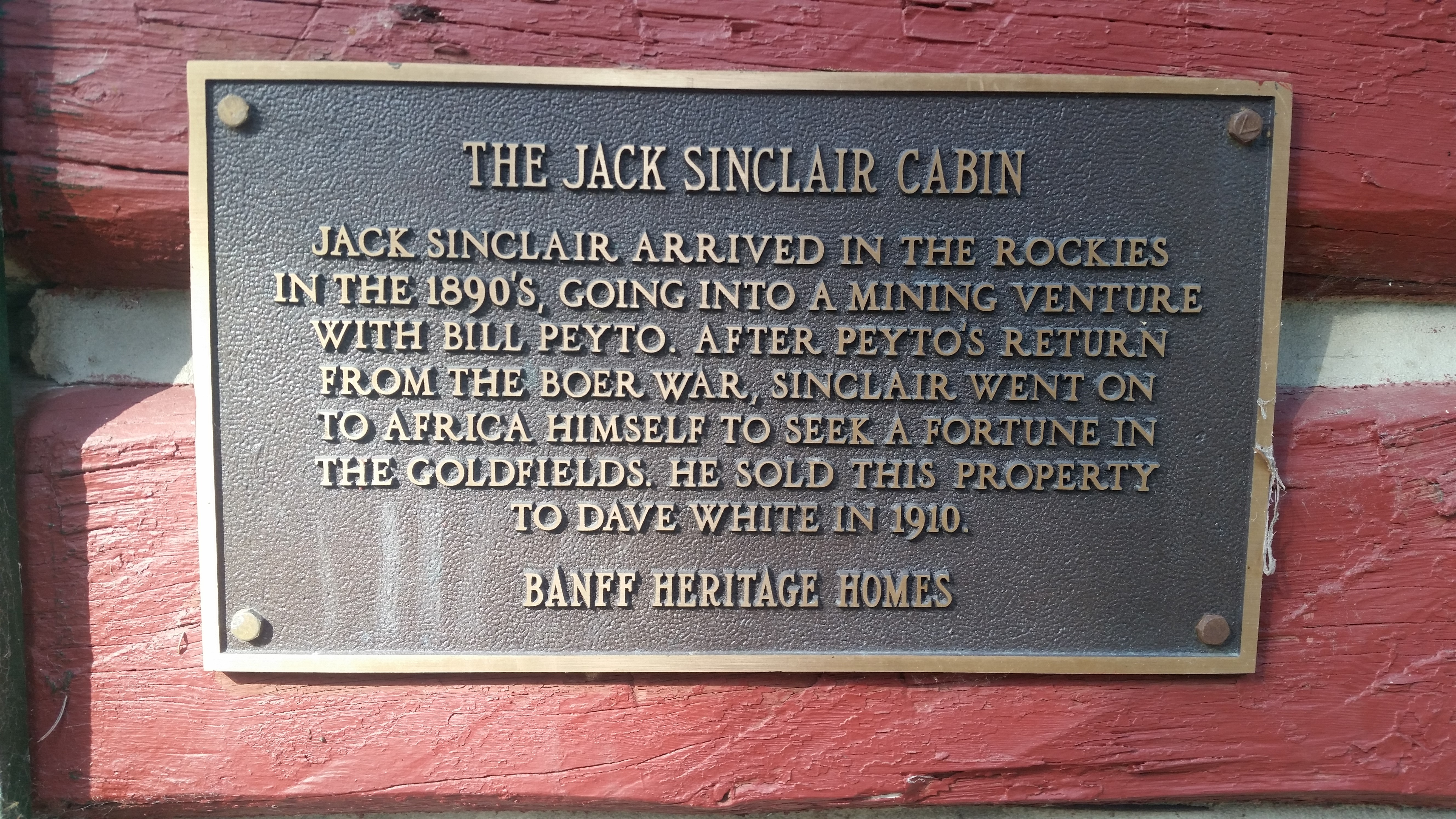 Label on the Jack Sinclair Cabin located on the Whyte Museum property.